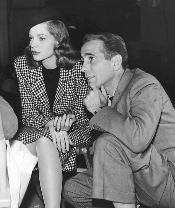 Photo of Lauren Bacall and Humphrey Bogart watching from the sidelines as The Big Sleep was being filmed.